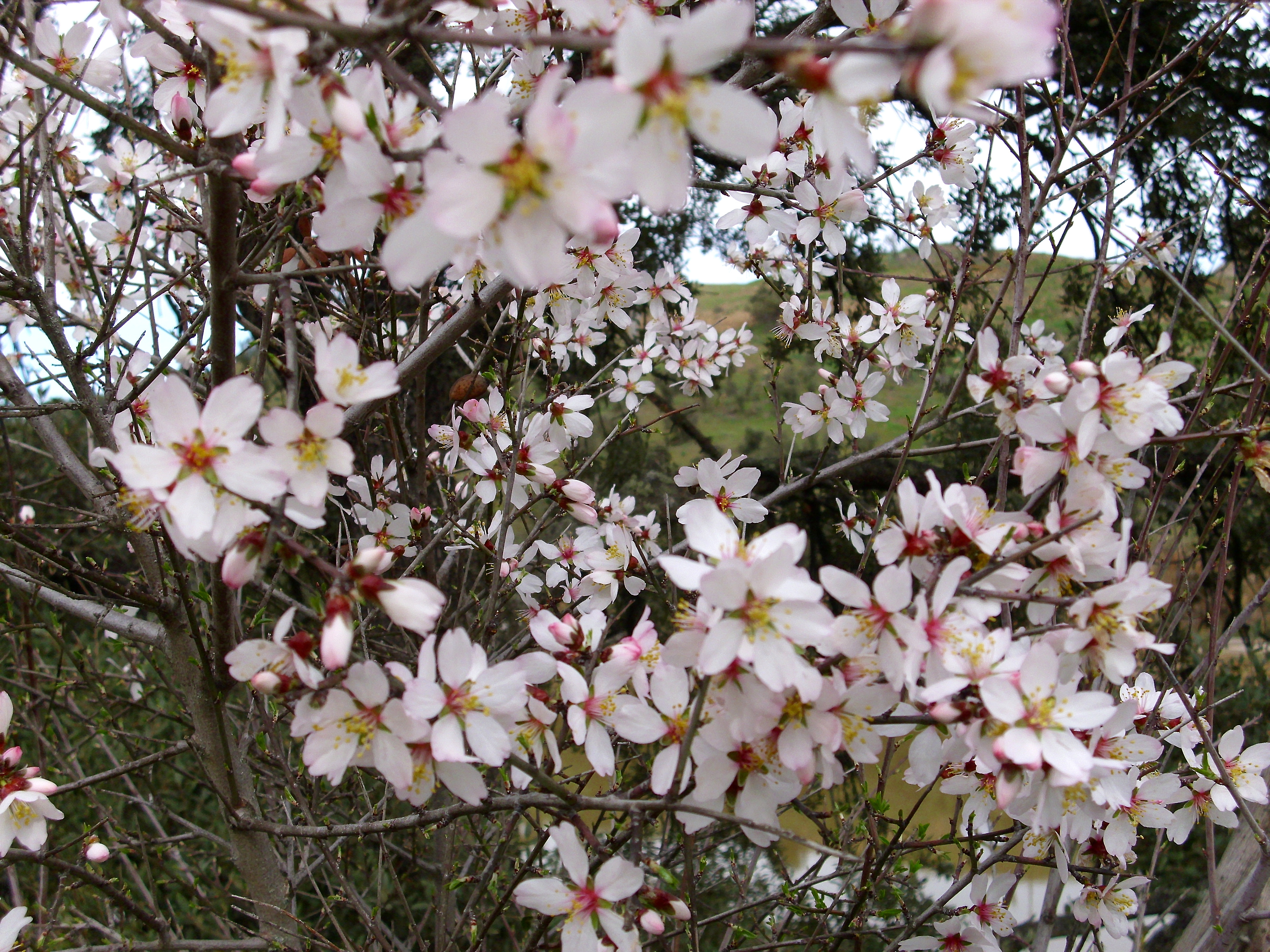 Prunus dulcis var. amara flowers, Dehesa Boyal de Puertollano, Spain